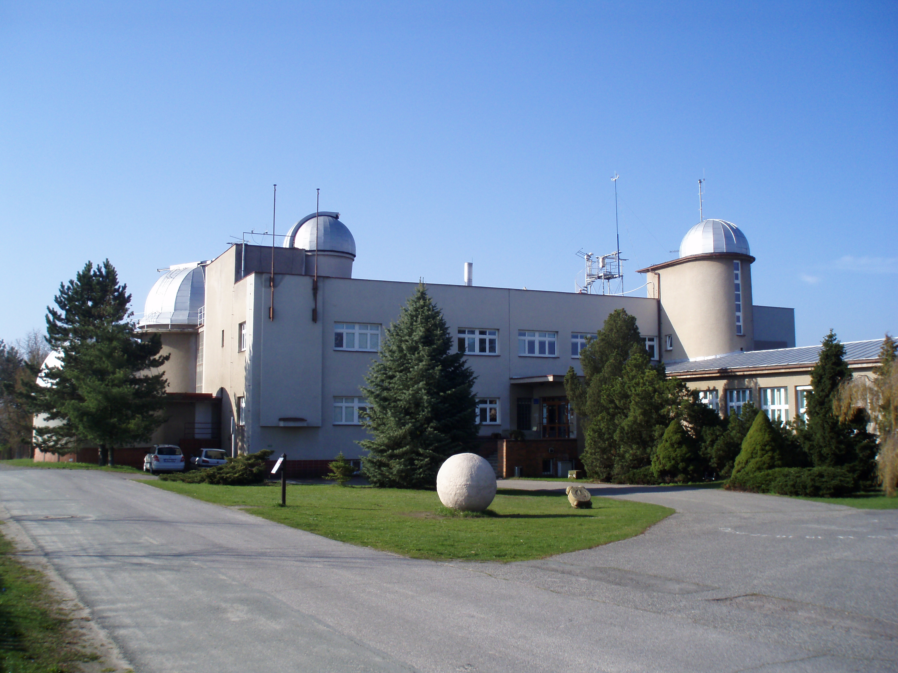 Observatory and planetarium in Hradec Králové (Czechia)